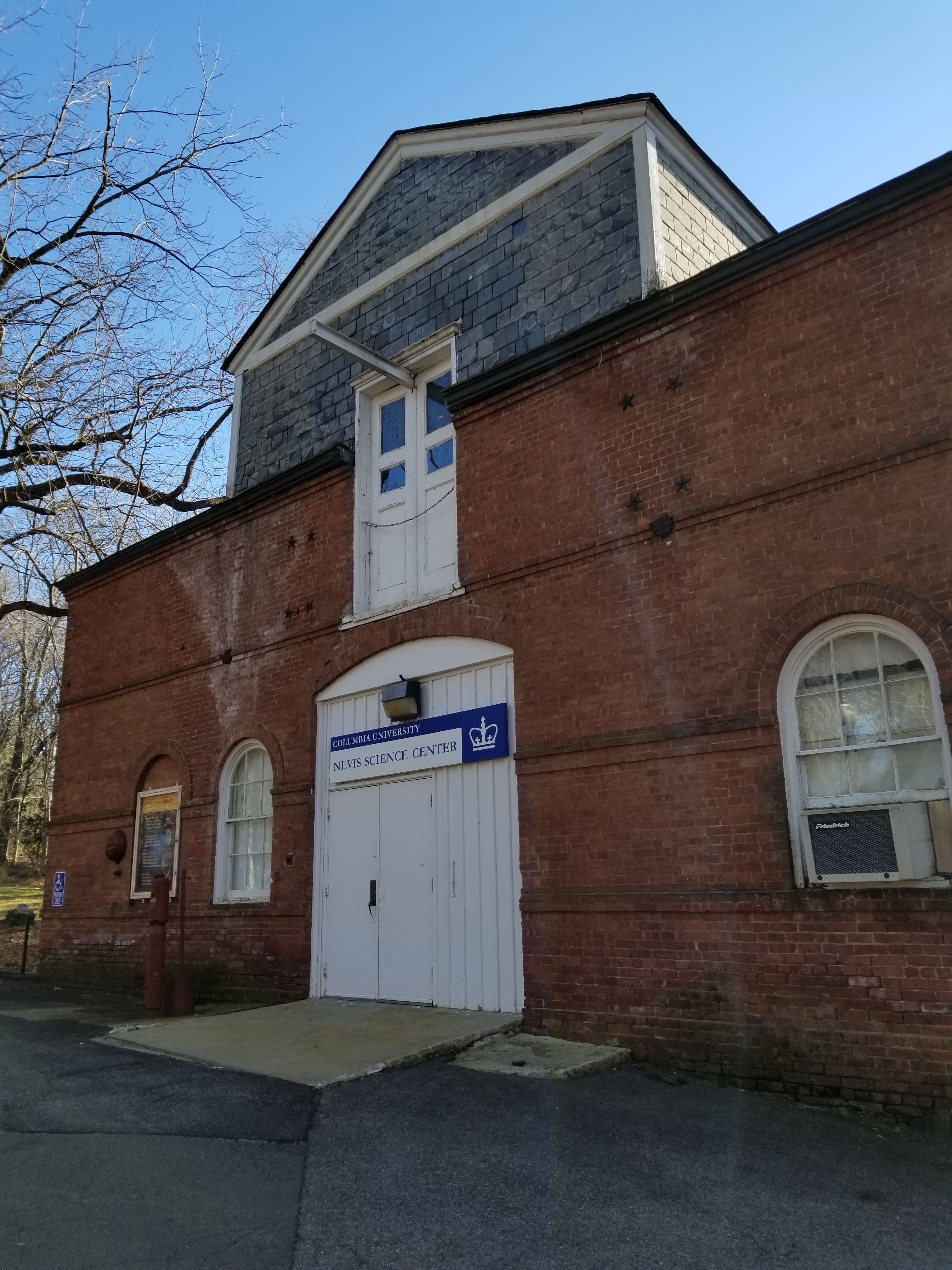 Nevis Science Center, December 2018